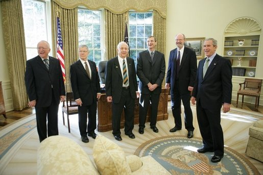 President George W. Bush meets with the 2005 Nobel Prize recipients, Tuesday, Nov. 8, 2005 in the Oval Office at the White House. From left to right are Dr. John Hall, 2005 Nobel Prize in Physics; Dr. Thomas C. Schelling, 2005 Nobel Prize in Economic Sciences; Dr. Roy J. Glauber, 2005 Nobel Prize in Physics; Dr. Richard R. Schrock and Dr. Robert H. Grubbs, 2005 Nobel Prize winners in Chemistry. White House photo by Paul Morse